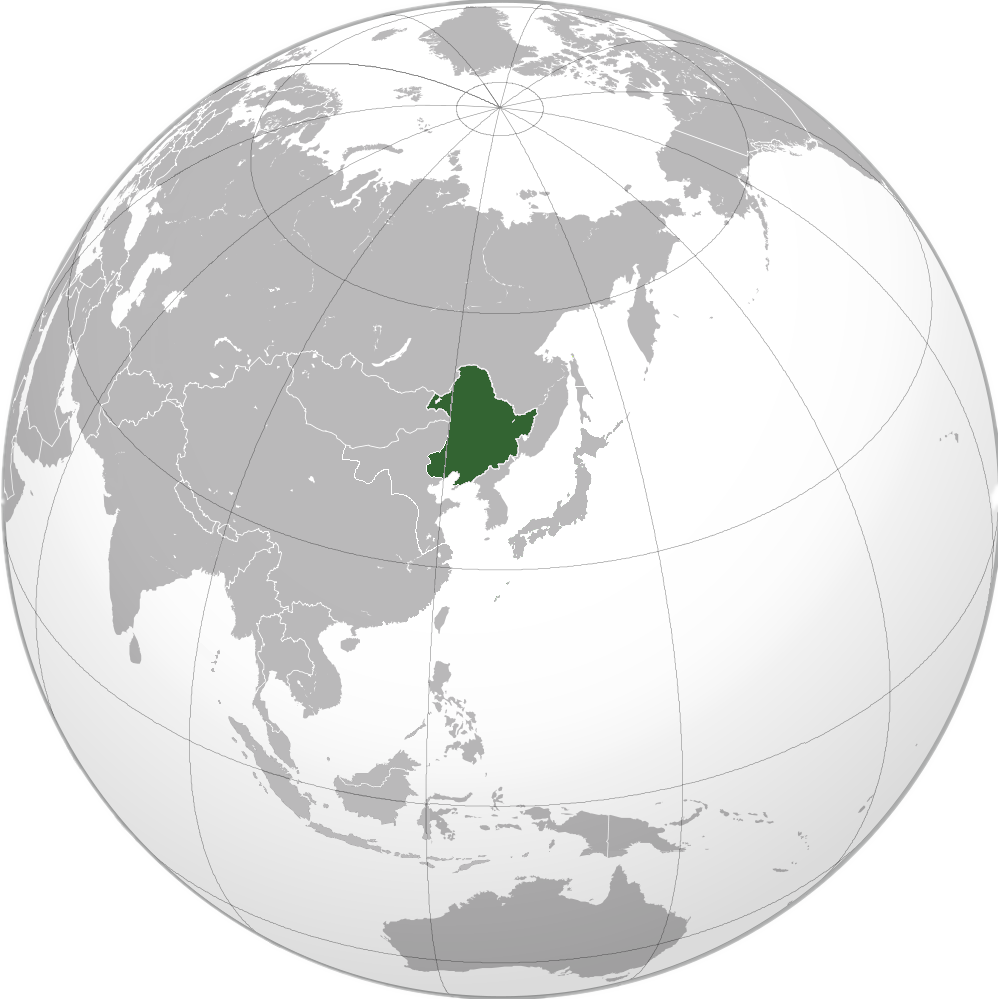 Manchukuo before 1945